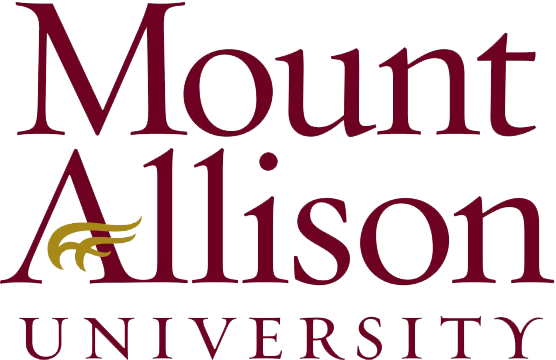 Workmark of Mount Allison University